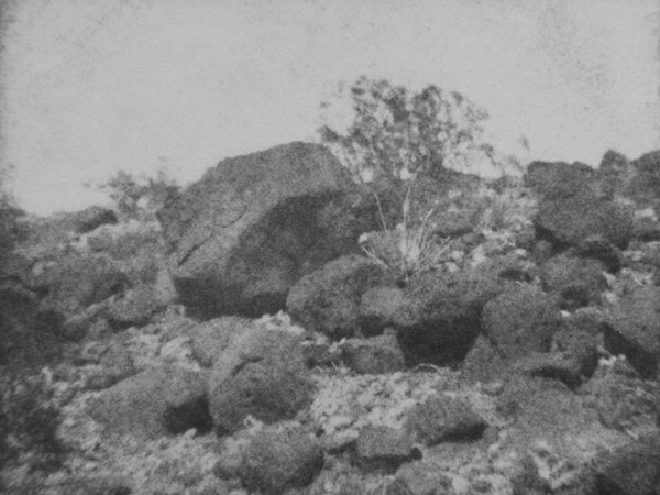 Image of boulders on a desert hillside made from a calotype paper negative and showing resolution loss due to paper texture.